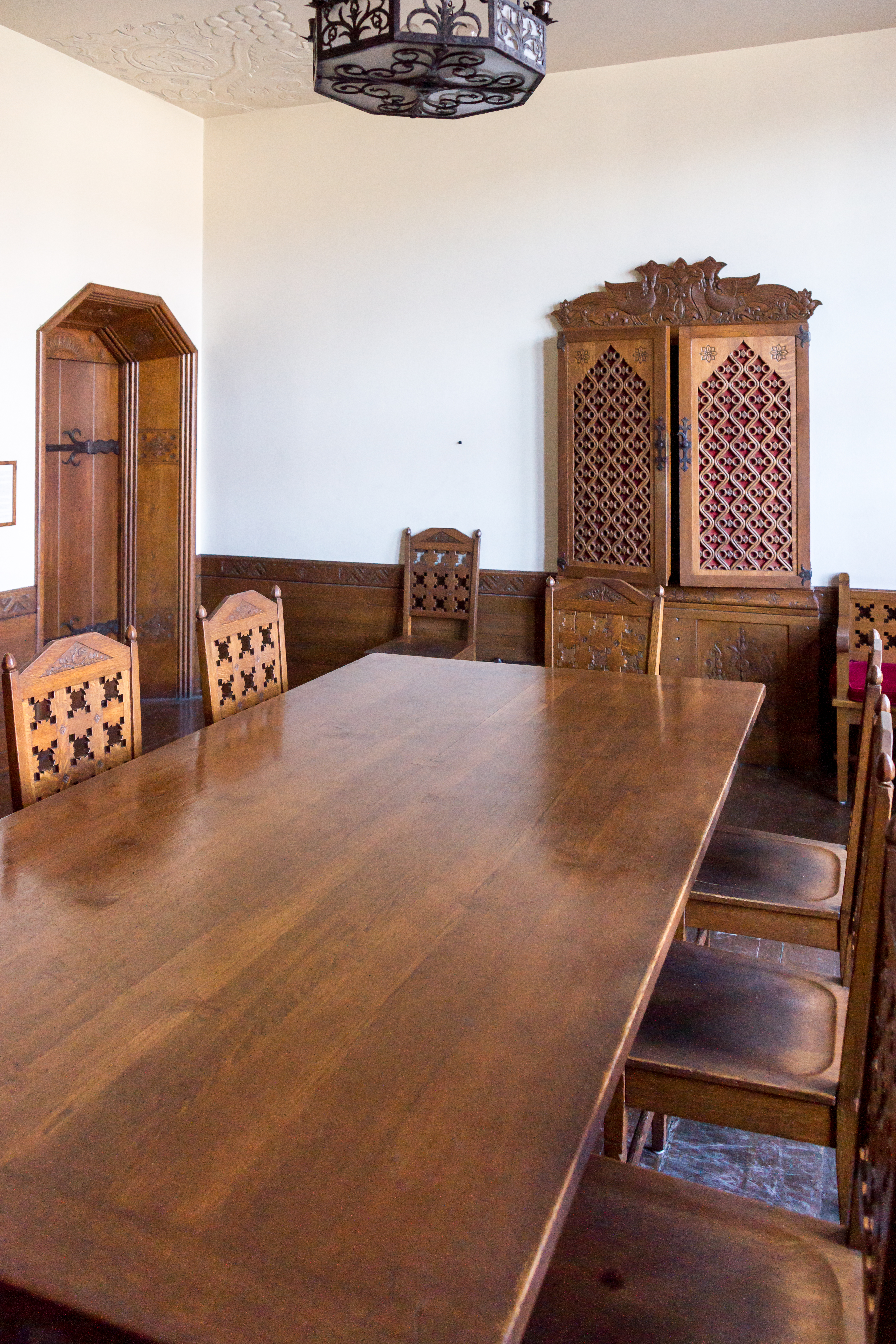 Russian Nationality Room in the Cathedral of Learning at the University of Pittsburgh